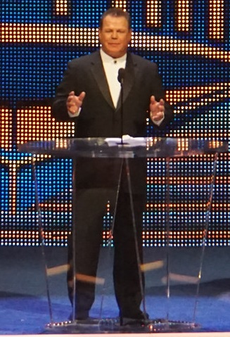 Jerry Lawler at the WWE Hall of Fame 2015